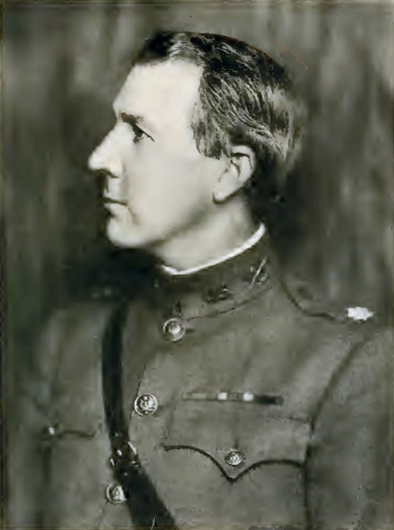 Maj. John Baker White, Judge Advocate General Corps, US Army c1917 NOTE: While the work containing this image was published and copyrighted in 1923, no renewal of the original copyright for it appears in the Library of Congress Copyright Office publication "Catalog of Copyright Entries and Renewals, Third Series" for 1950 therefore it entered the public domain when the copyright for this work expired on January 1, 1951 under the provisions of §23 of the Act to Amend and Consolidate the Acts Representing Copyright of 1909 (Pub. Law 60-349, 35 Stat. 1075), the applicable US copyright law in effect at the time.